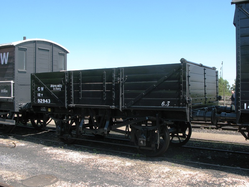 Great Western Railway diagram O13 open wagon at Didcot Railway Centre, England. This type of wagon is fitted with end doors to allow a load of china clay to be discharged directly into a ship by tipping the wagon. It is marked Return empty to Fowey which is the main port for exporting china clay in Cornwall.